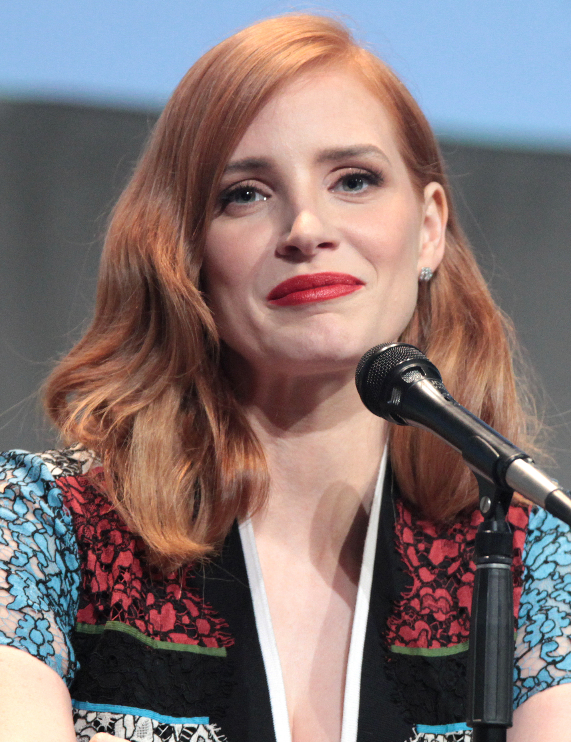 Jessica Chastain speaking at the 2015 San Diego Comic Con International, for "Crimson Peak", at the San Diego Convention Center in San Diego, California.